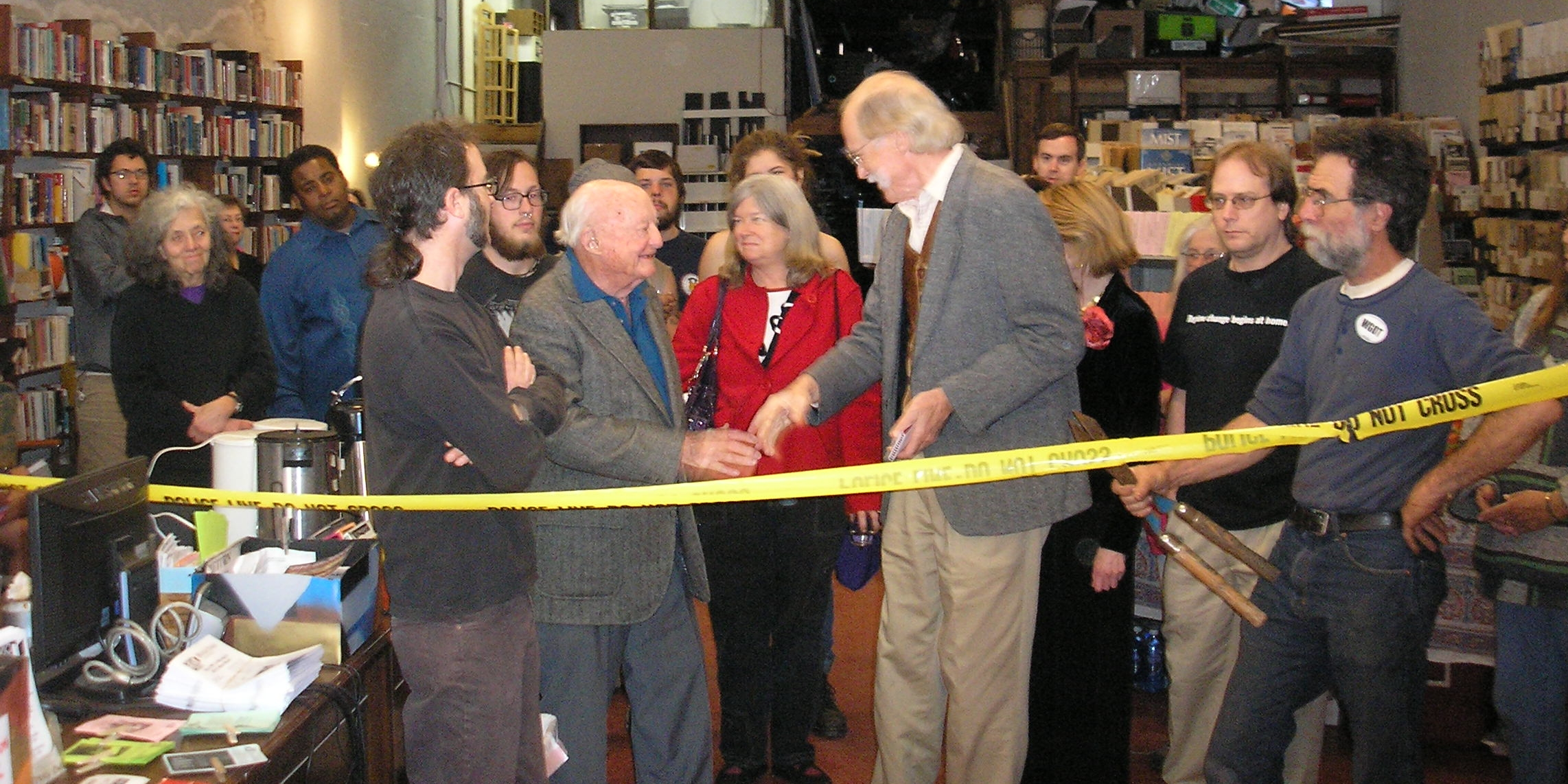 The Civic Media Center's new location is dedicated by Stetson Kennedy (left of center, in a gray jacket and blue shirt), who chose the CMC as the recipient of his extensive personal library, which contains about 2,000 books and publications he has collected over his 74-year career.